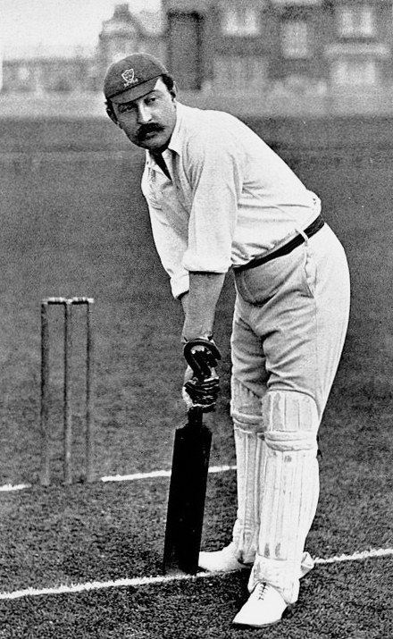 Sport, Cricket, Circa 1895, William Newham, Sussex (1881-1905) and England (1887-1888)